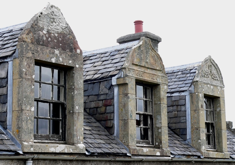 Dunstaffnage Castle, Argyll and Bute, Scotland - dormer windows from new house